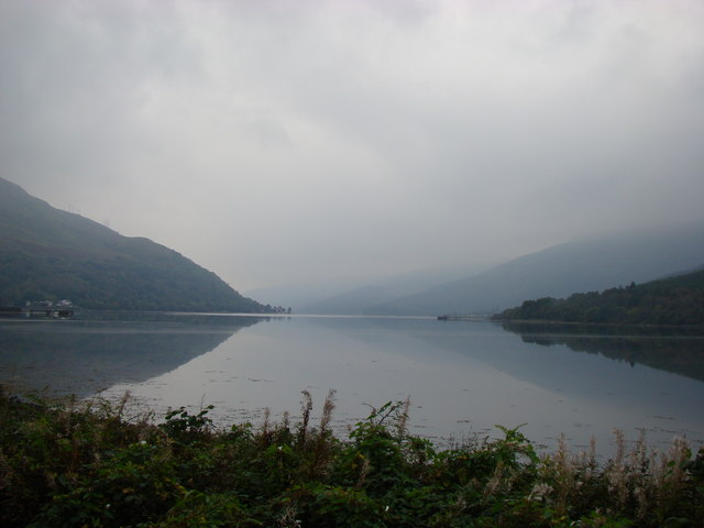 Loch Long Loch Long from the path round the head of the loch from Arrochar to Succoth.